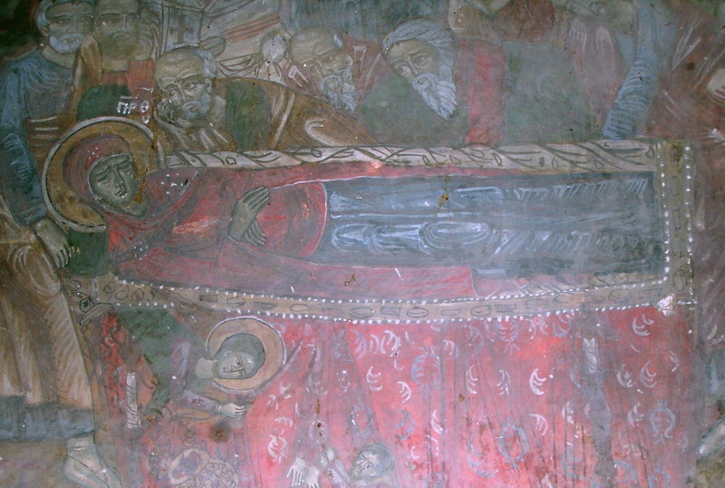 Frourio Dormition Church Dormition Detail